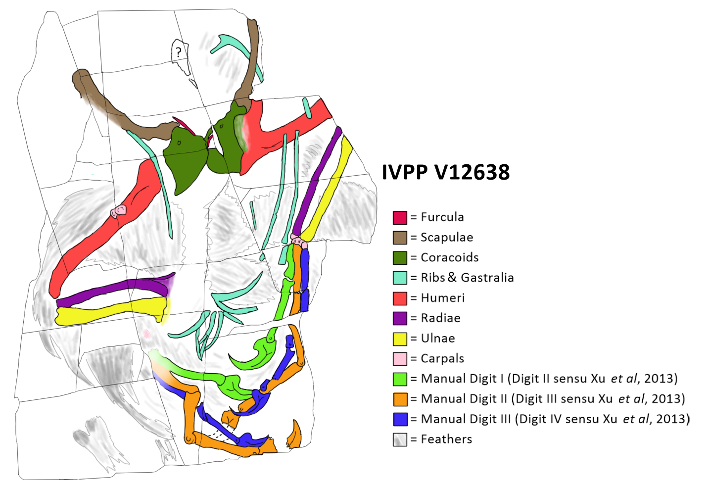 A diagram showing the bones and feathering preserved in IVPP V 12638, the holotype of Yixianosaurus longimanus, a feathered dinosaur.